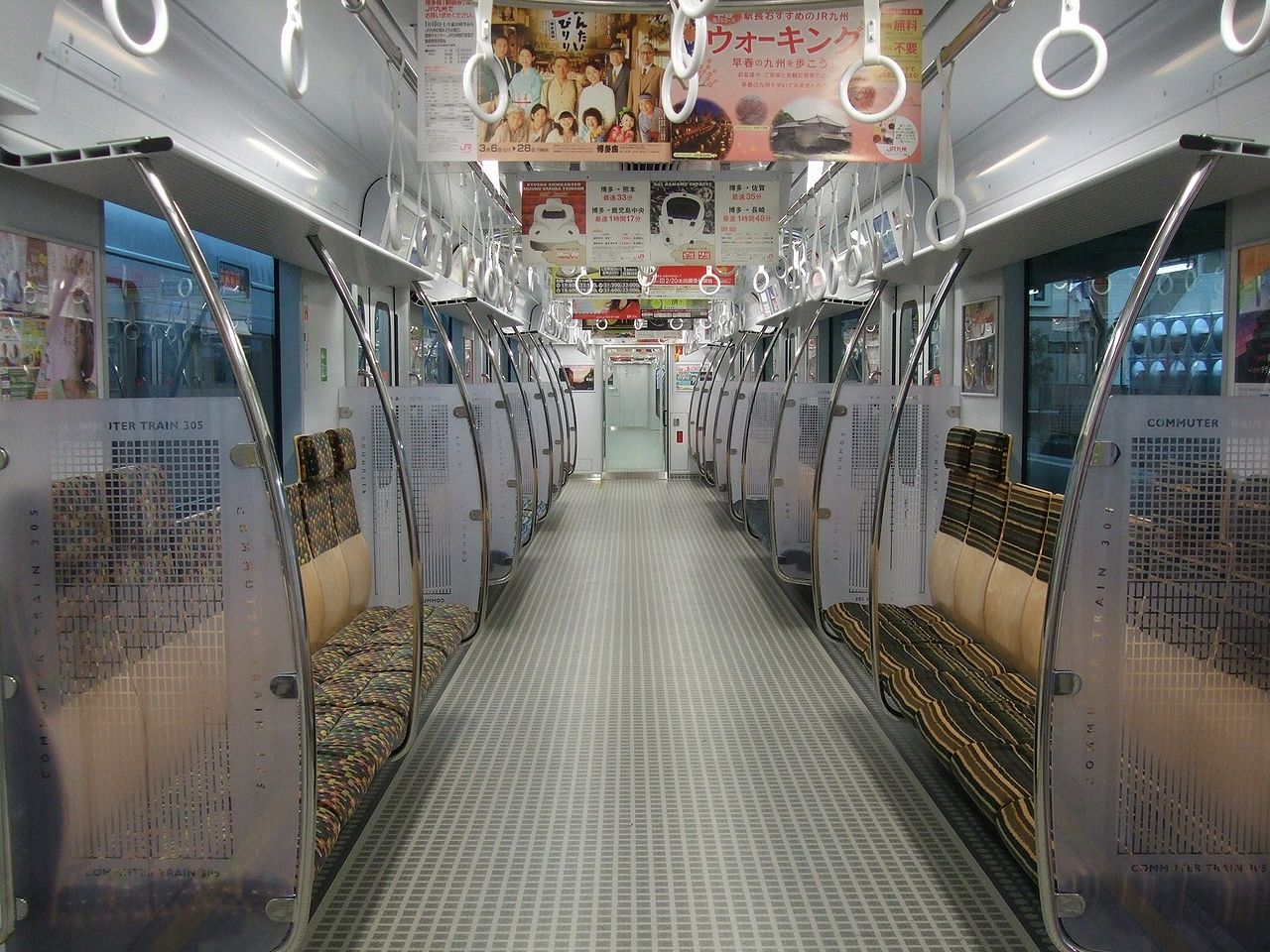 The interior of JR Kyushu 305 series EMU car MoHa 305-3 (car No. 2 of 6-car set W3) with conventional flooring